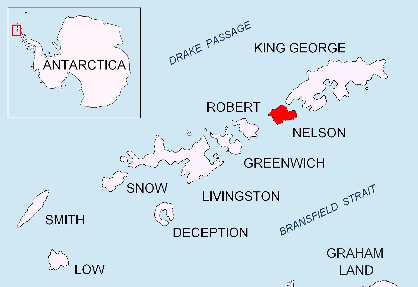 Location map of Nelson Island in the South Shetland Islands.